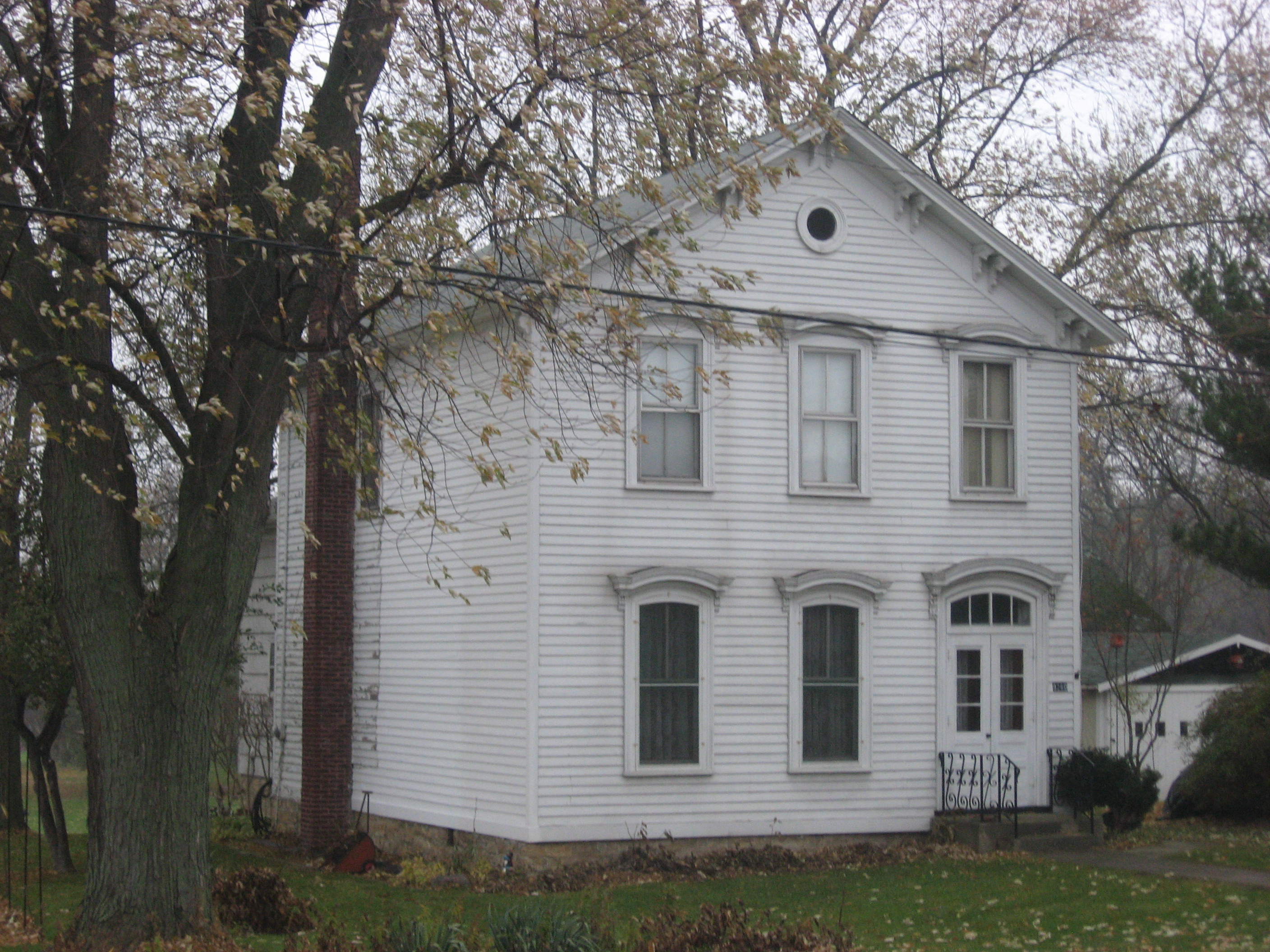 Front and southern side of the Francis P. Keilman House, located at 9260 Patterson Street in St. John, Indiana, United States. Built in 1857, it is listed on the National Register of Historic Places.